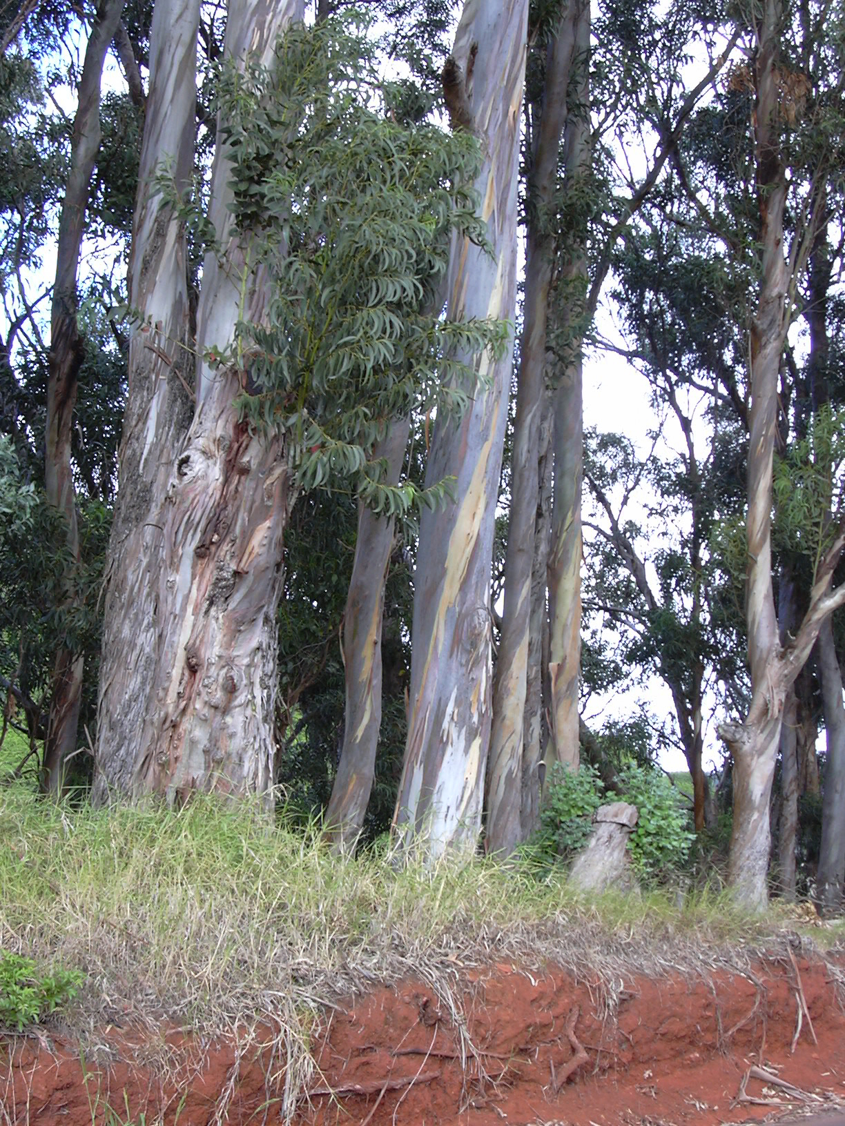 Eucalyptus globulus (habit). Location: Maui, Piiholo